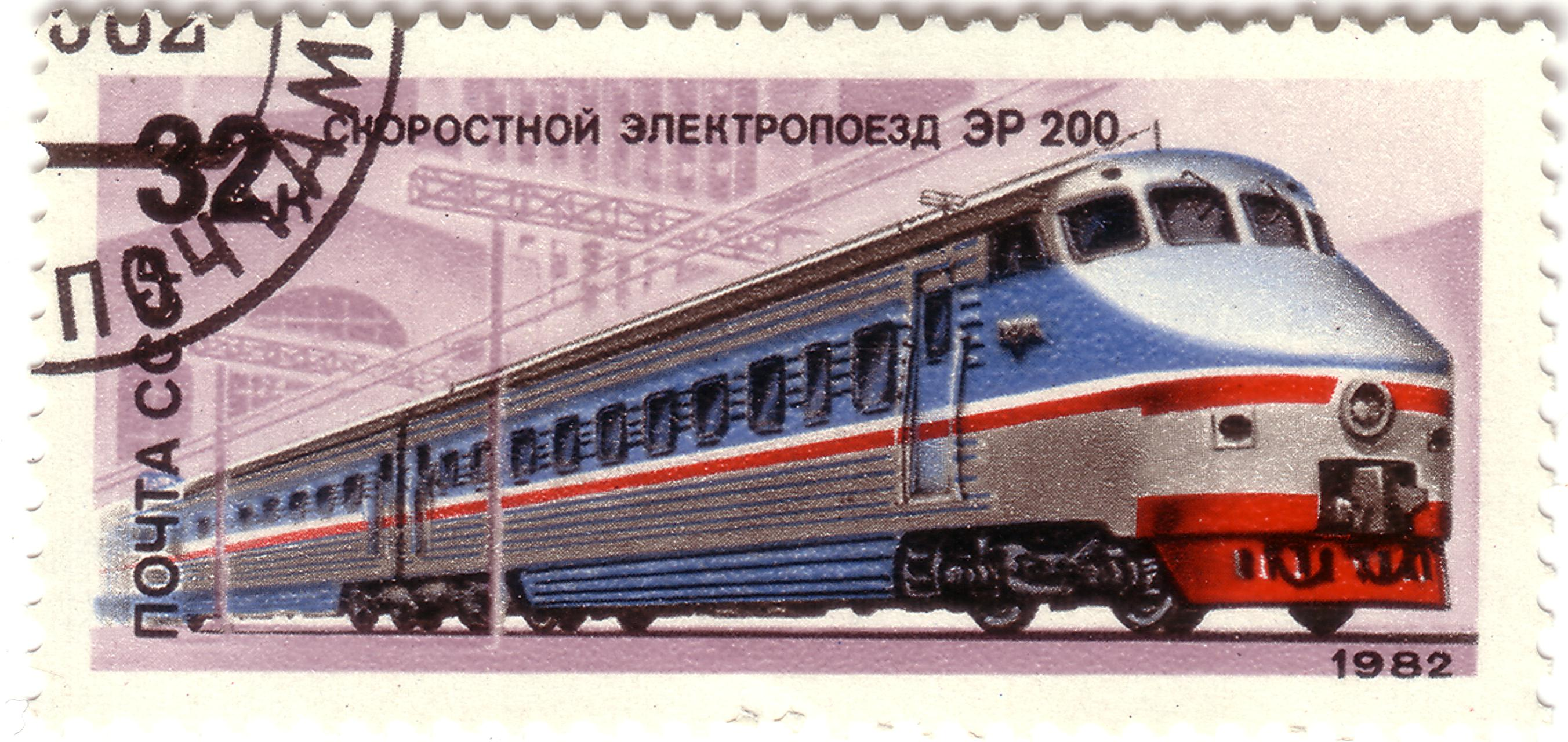 Stamp of the Soviet Union, 1982. Russian electric train ER200.